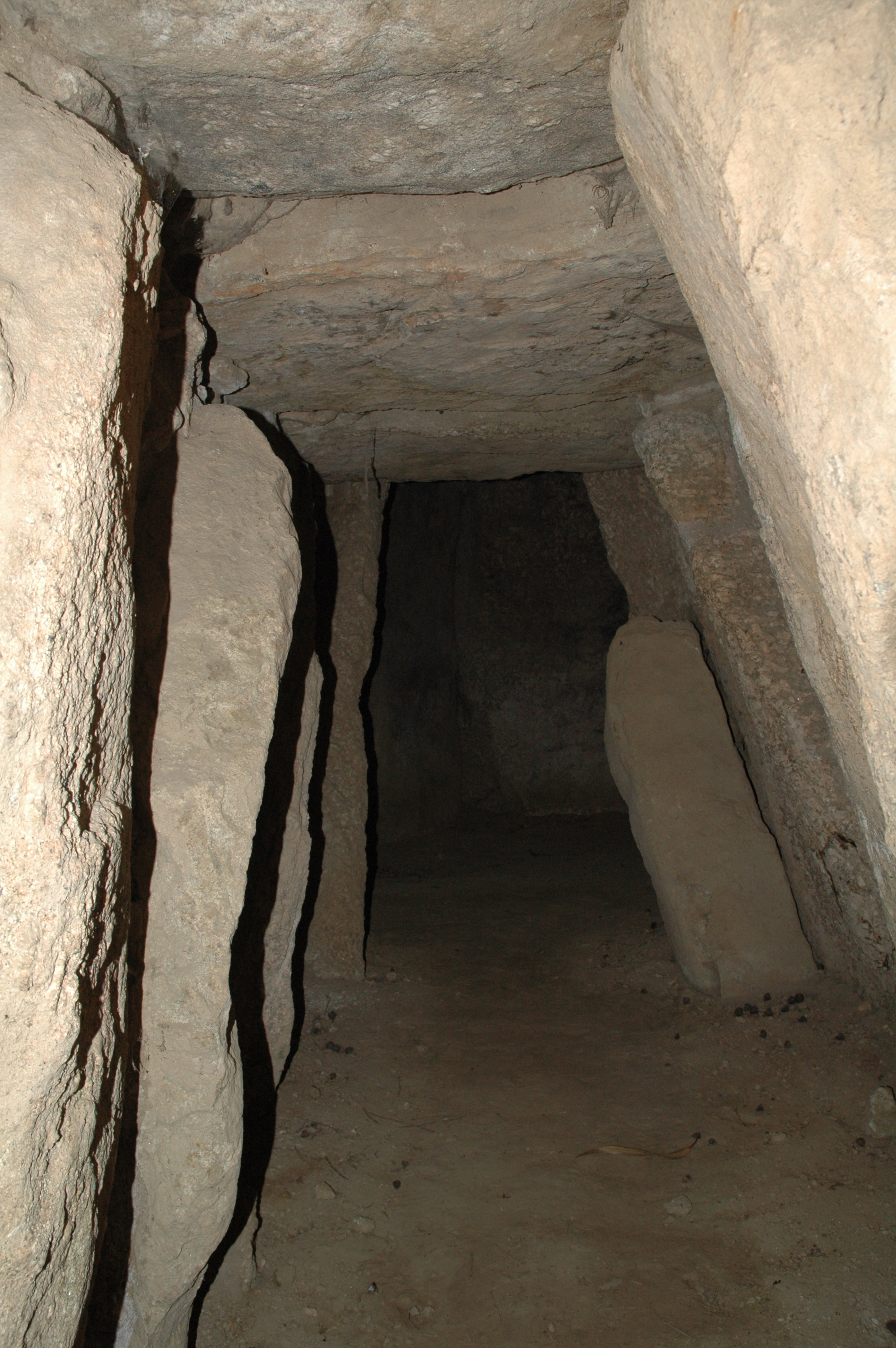 This file was uploaded for Wiki Loves Monuments in Portugal with the unique identifier 74043.